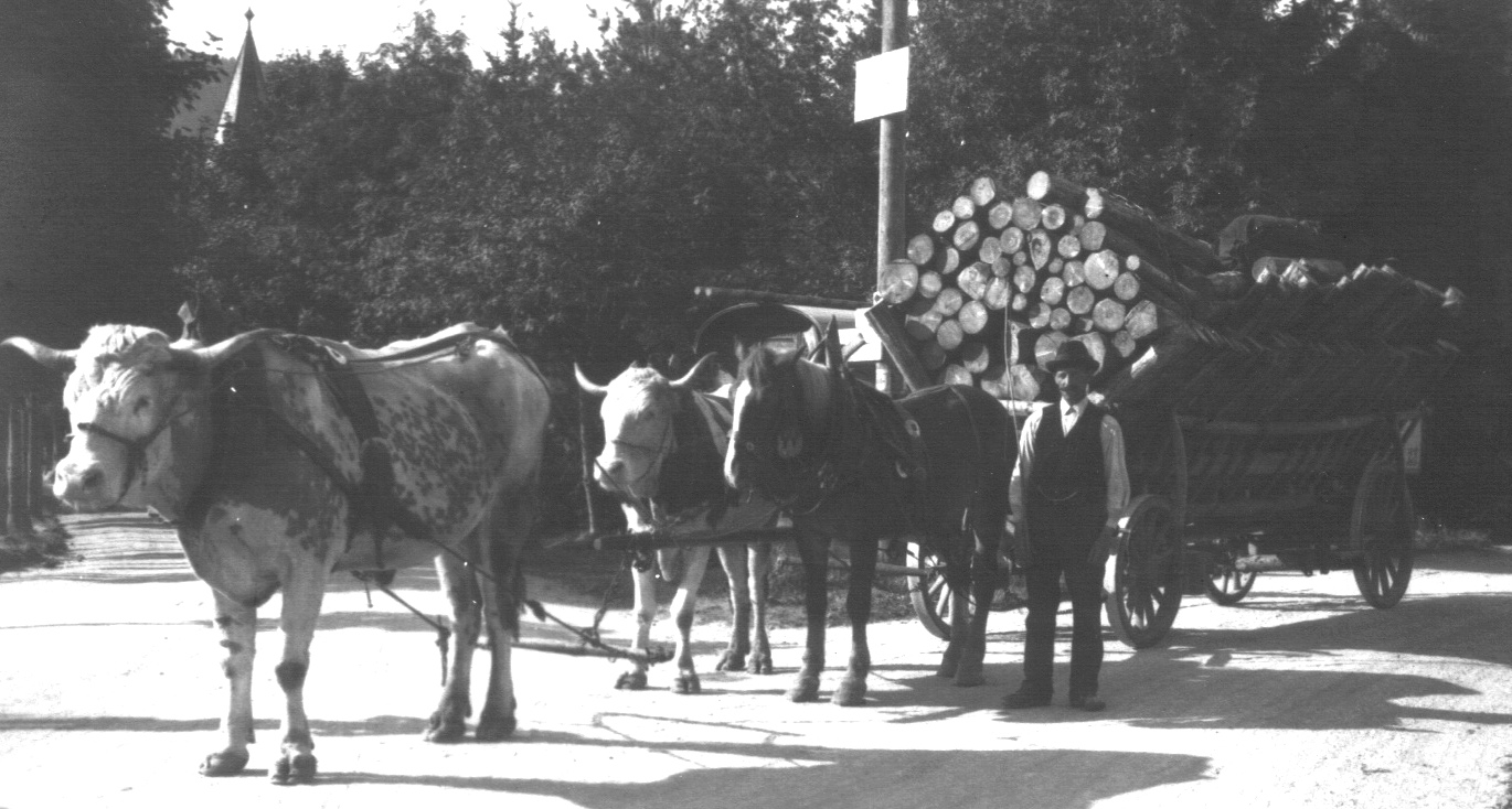 Two oxen and one horse pulling a wagon.